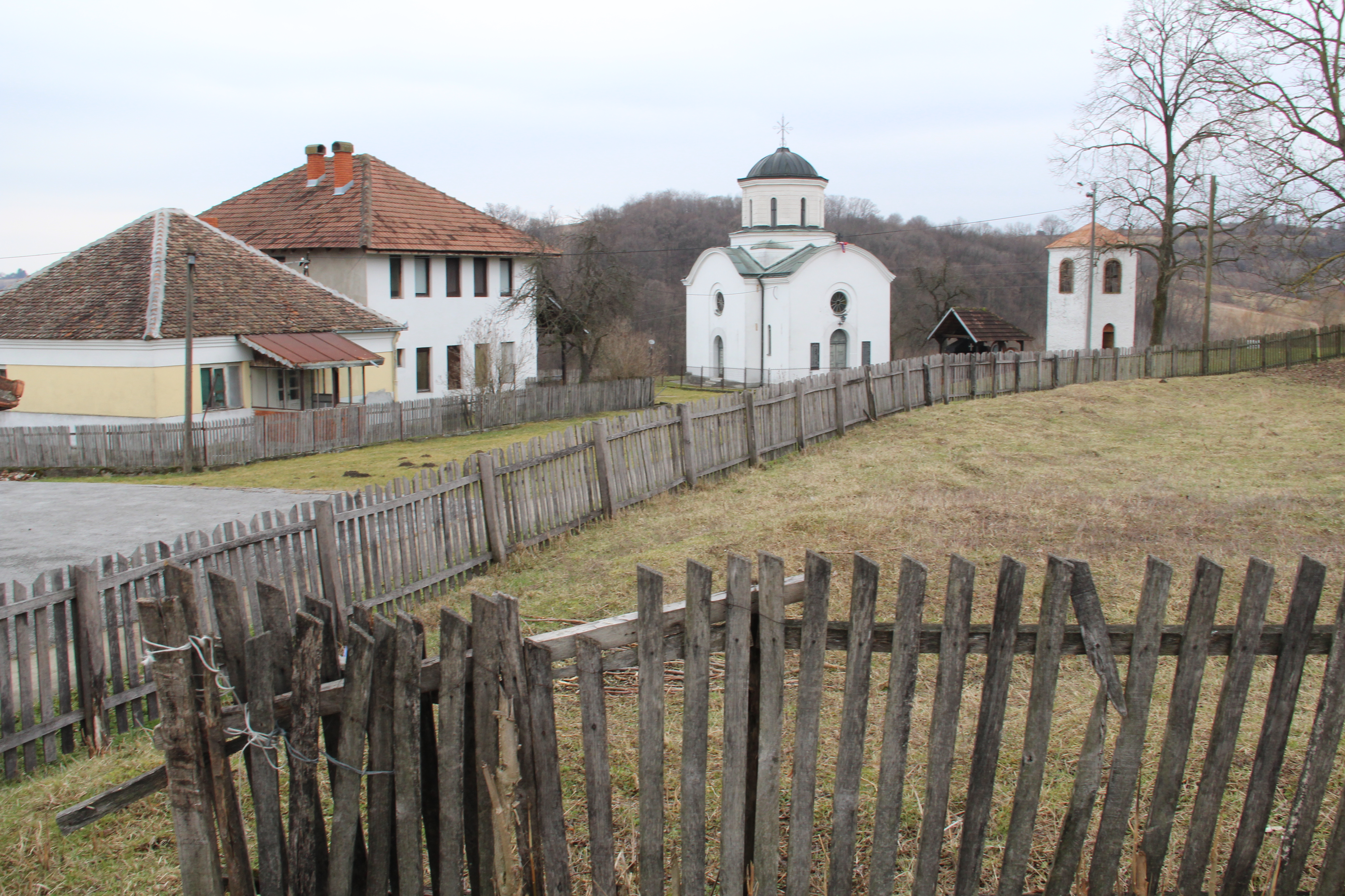 Paune Village - Municipality of Valjevo - Western Serbia - Church of the Birth of St. John the Baptist 1